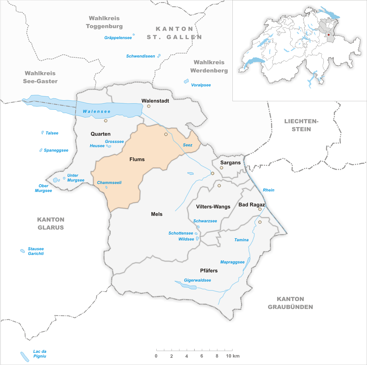 Municipality Flums